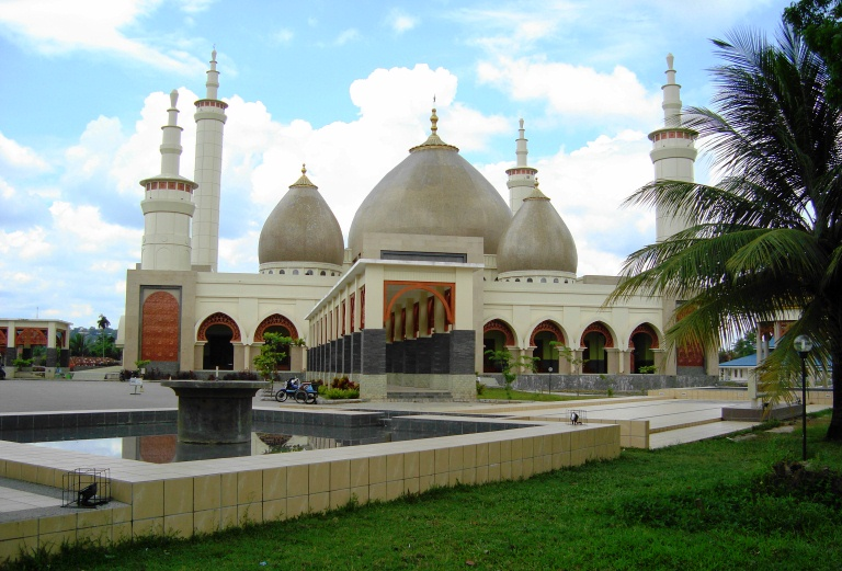 Islamic Centre Kabupaten Kampar building in Bangkinang city, Kampar regency, Riau.